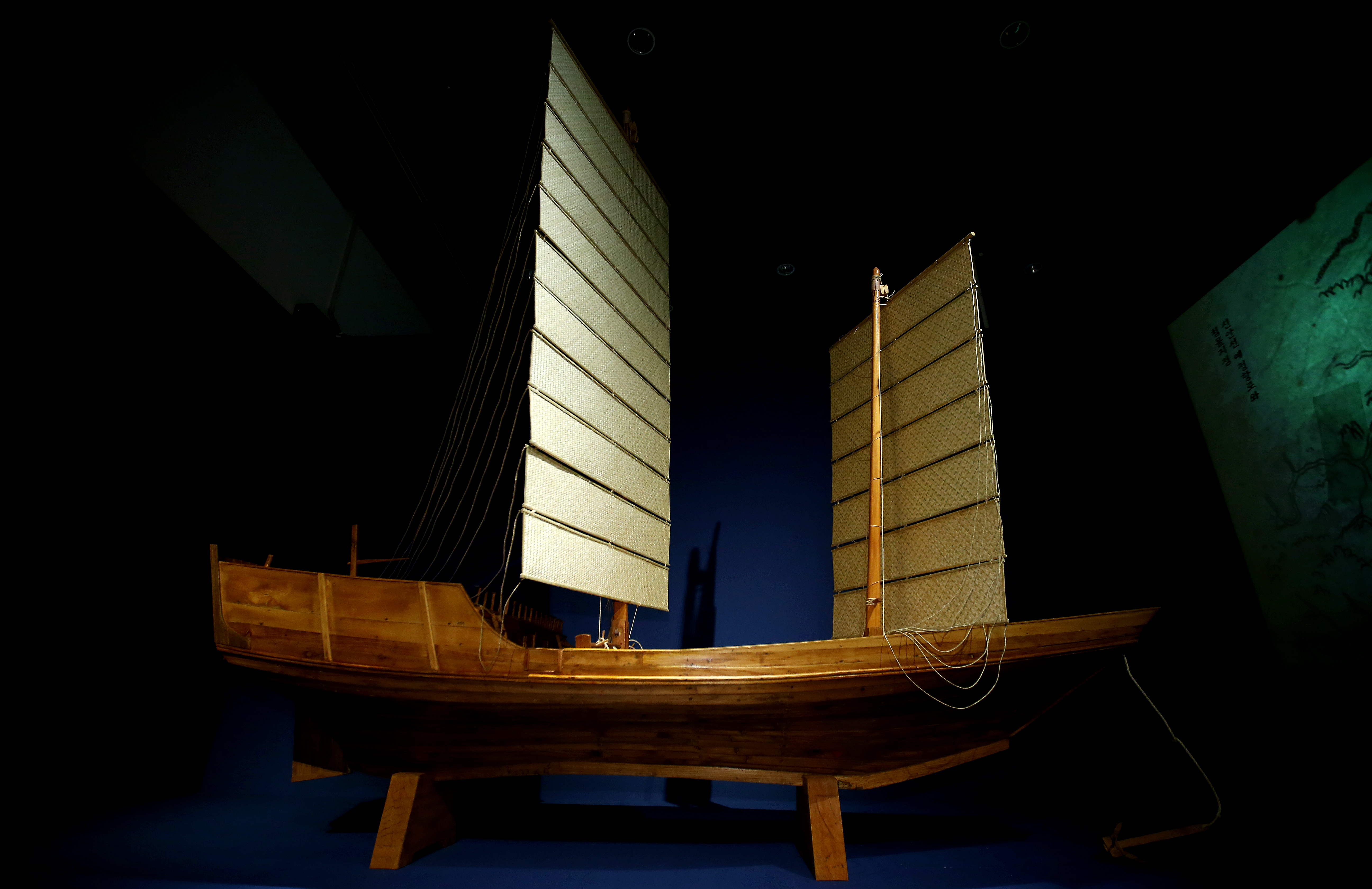 Discoveries from the Sinan Shipwreck July 25, 2016